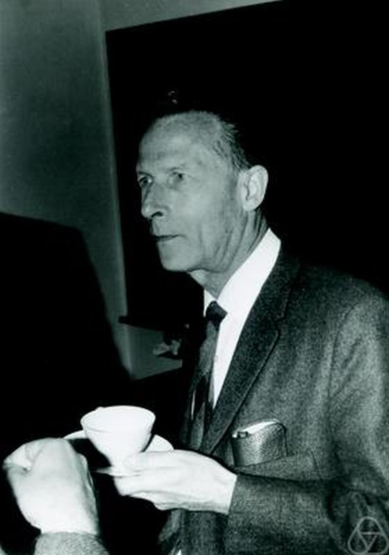 Rudolf Kochendörffer 1971 in Erlangen